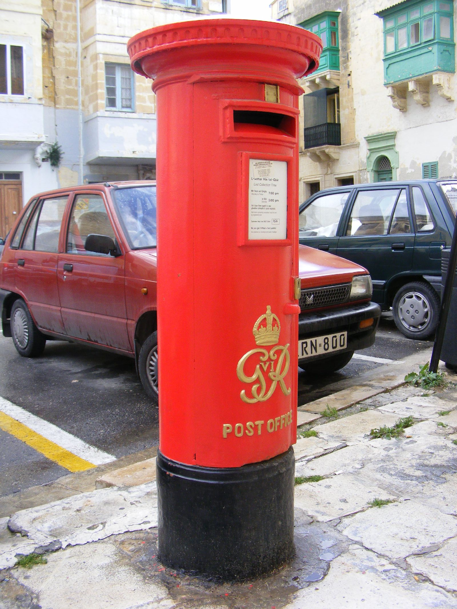 George VI post box, Senglea, Malta